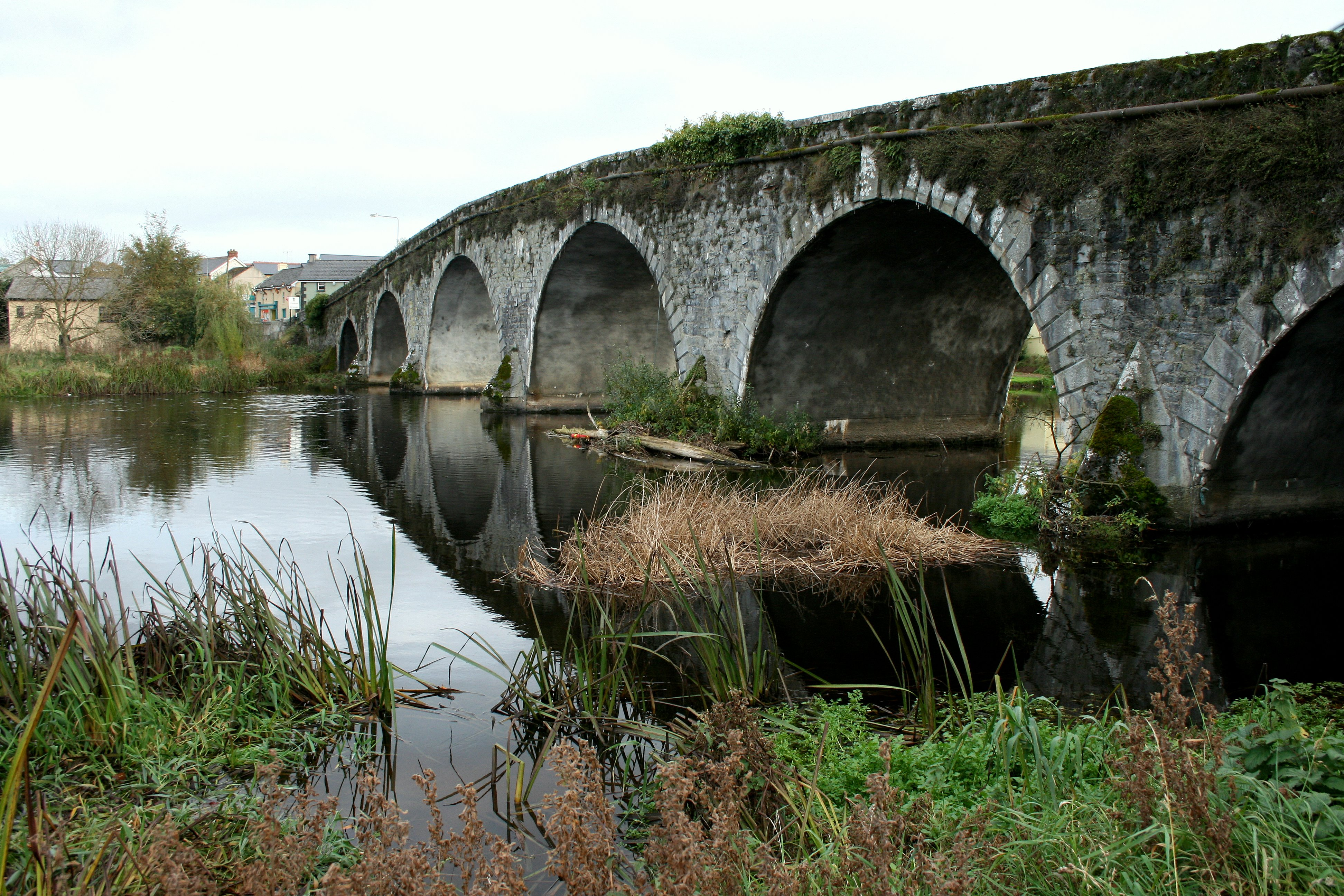 The R700 crossing the River Nore at Bennetsbridge, County Kilkenny, Ireland